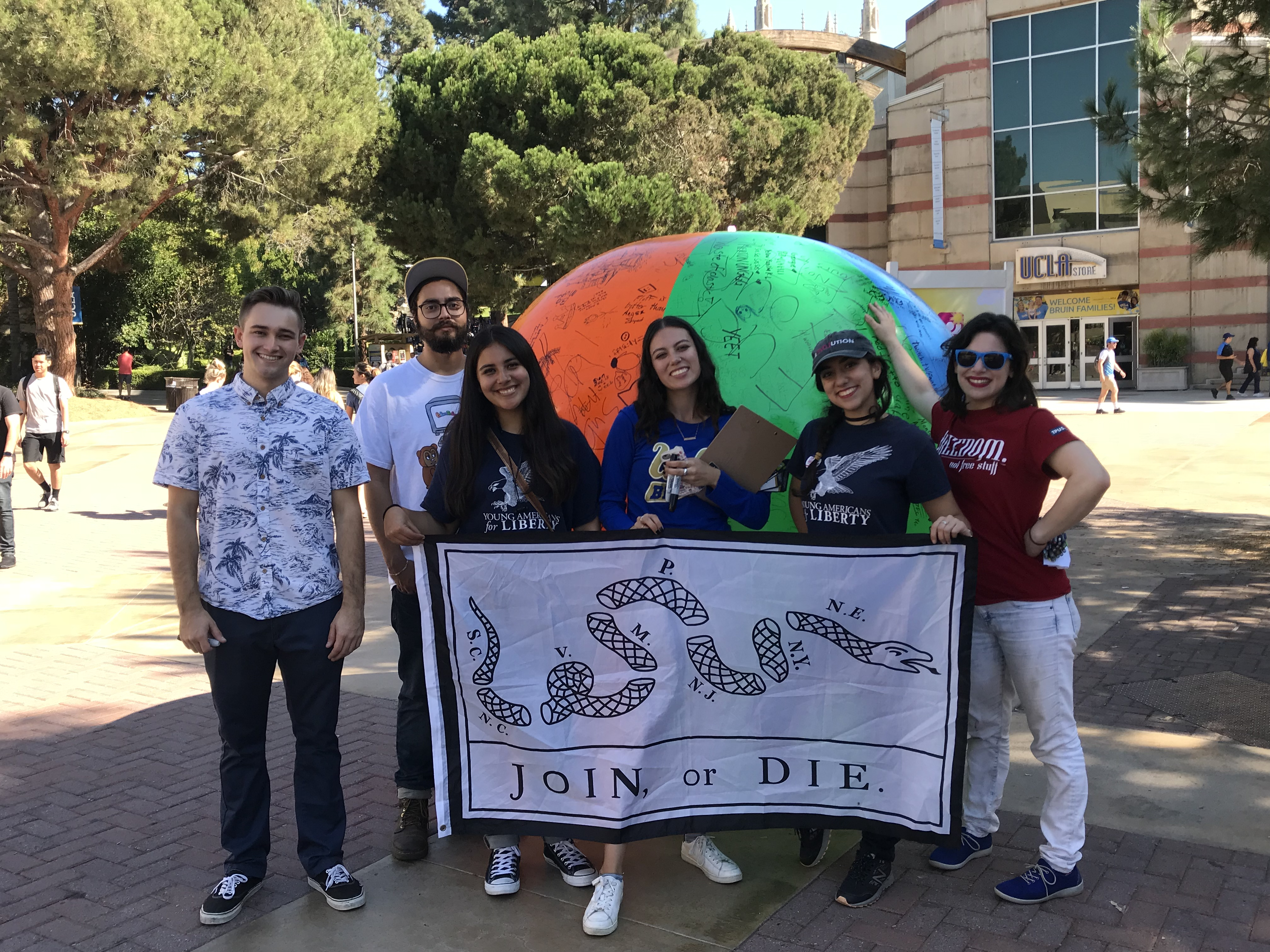 Six YAL activists gathered with Gadsden Flag and beach ball at the University of California, Los Angeles